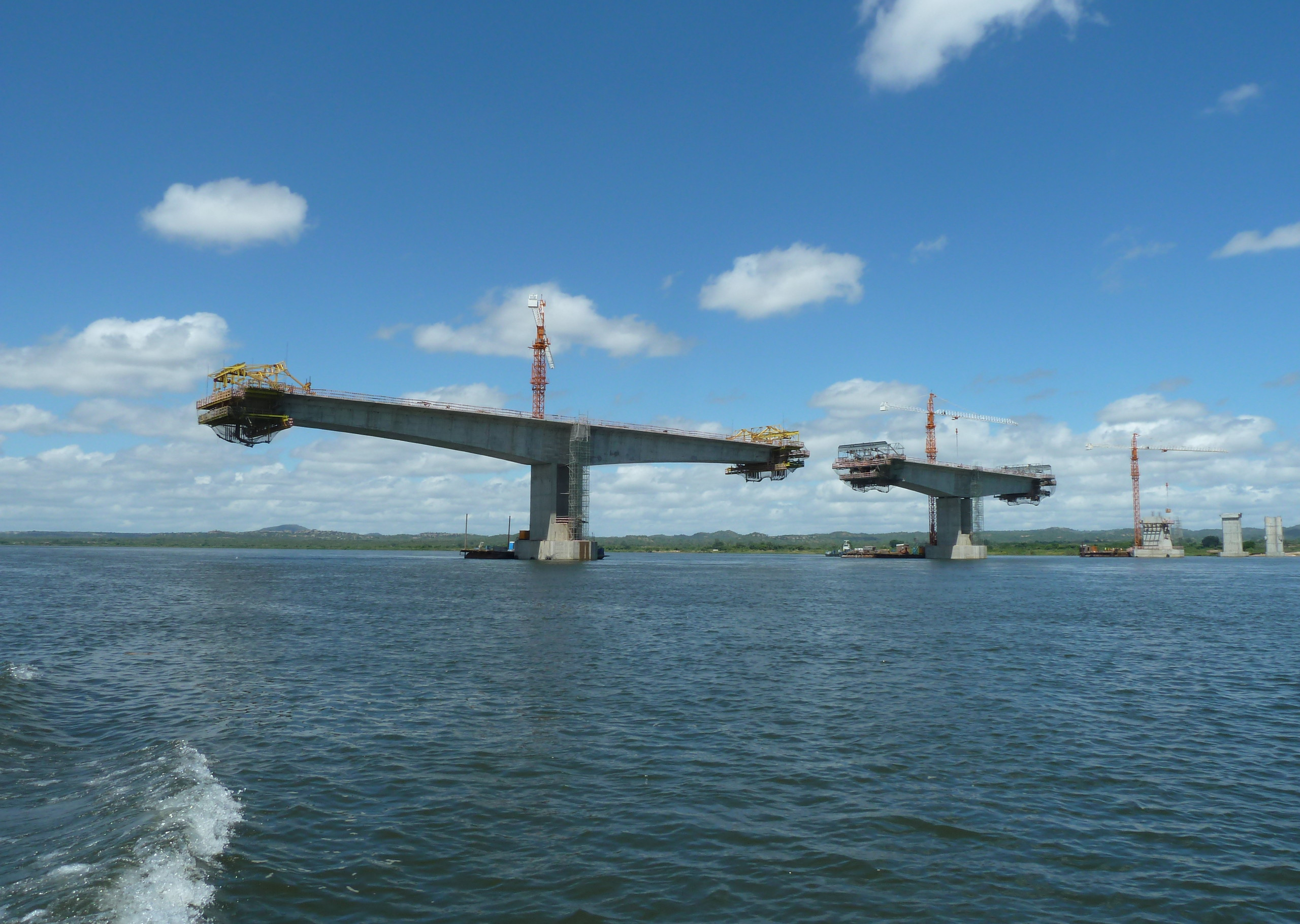 Bridge "Ponte Kassuende" close to Tete city, Tete province, Mozambique